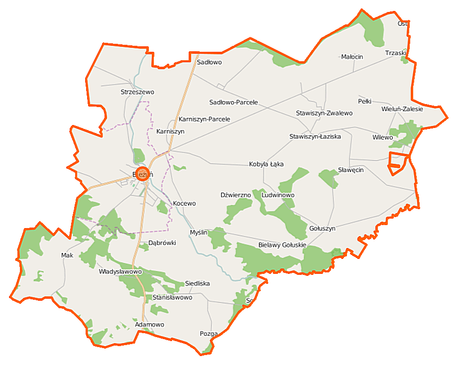 Map of Gmina Bieżuń, Poland This map of Bieżuń (gmina) was created from OpenStreetMap project data, collected by the community. This map may be incomplete, and may contain errors. Don't rely solely on it for navigation.